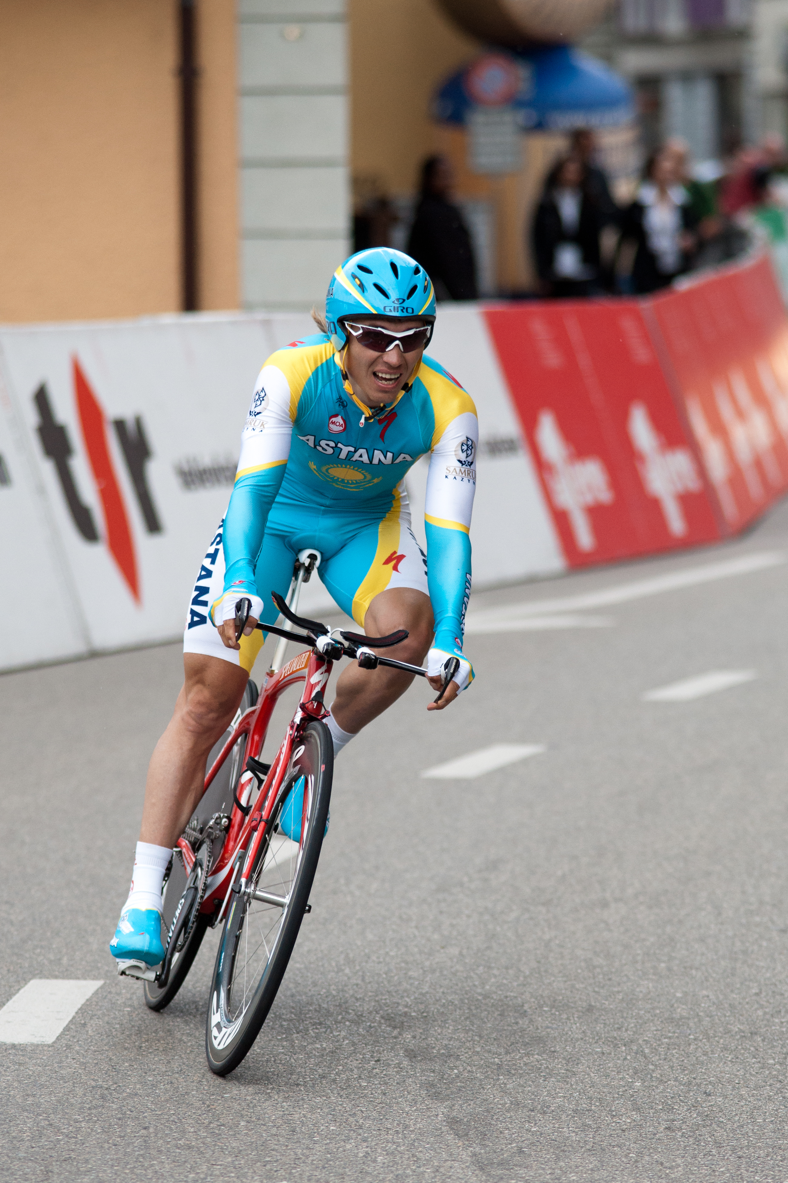 Maxim Iglinski during the 3rd stage of the Tour de Romandie 2010.